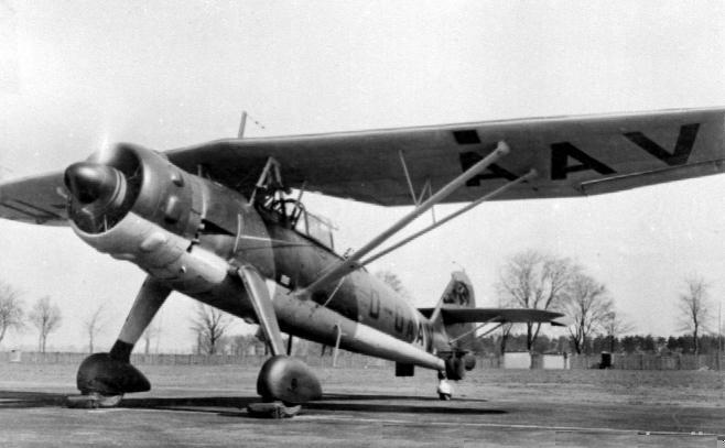 A German Henschel Hs 126 A-0 (D-OAAV) reconnaissance plane.